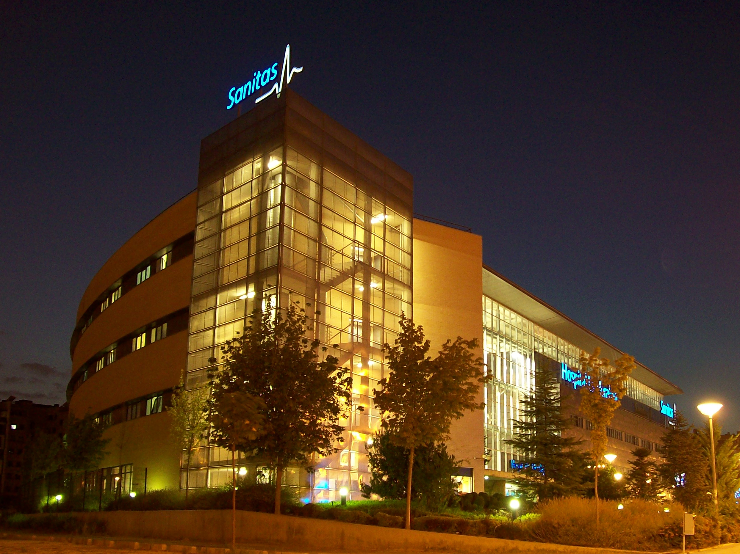 Night view of La Moraleja Hospital in Madrid (Spain).